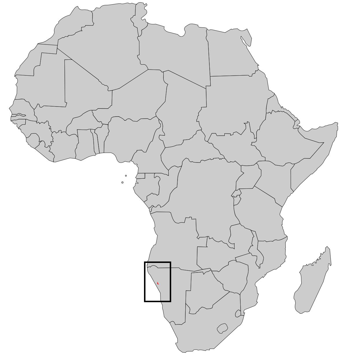 The geographic range of Macroscelides micus, a sengi endemic to Namibia.